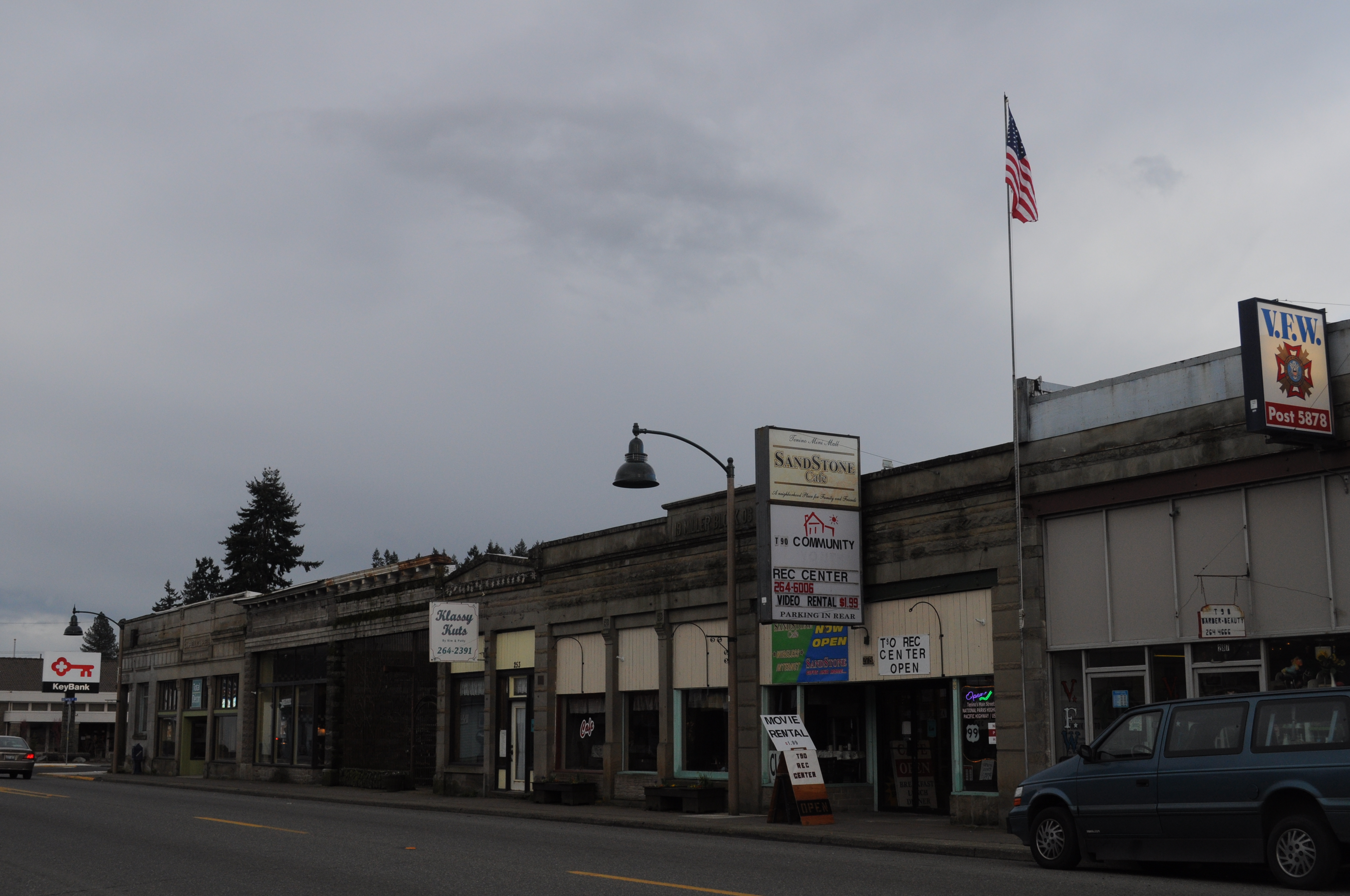 Downtown Historic District on Sussex Street, Tenino, Washington. Left to right (using historical names of the buildings), The State Bank of Tenino on the corner is actually nestled into the L-shaped Campbell & Campbell Building; except for its façade the Mentzner & Coping Block was gutted by fire in 1983; only one of the two storefronts has been rebuilt. The Miller Block (three storefronts, one with a distinct capital). The VFW Hall/Liberty Theater.